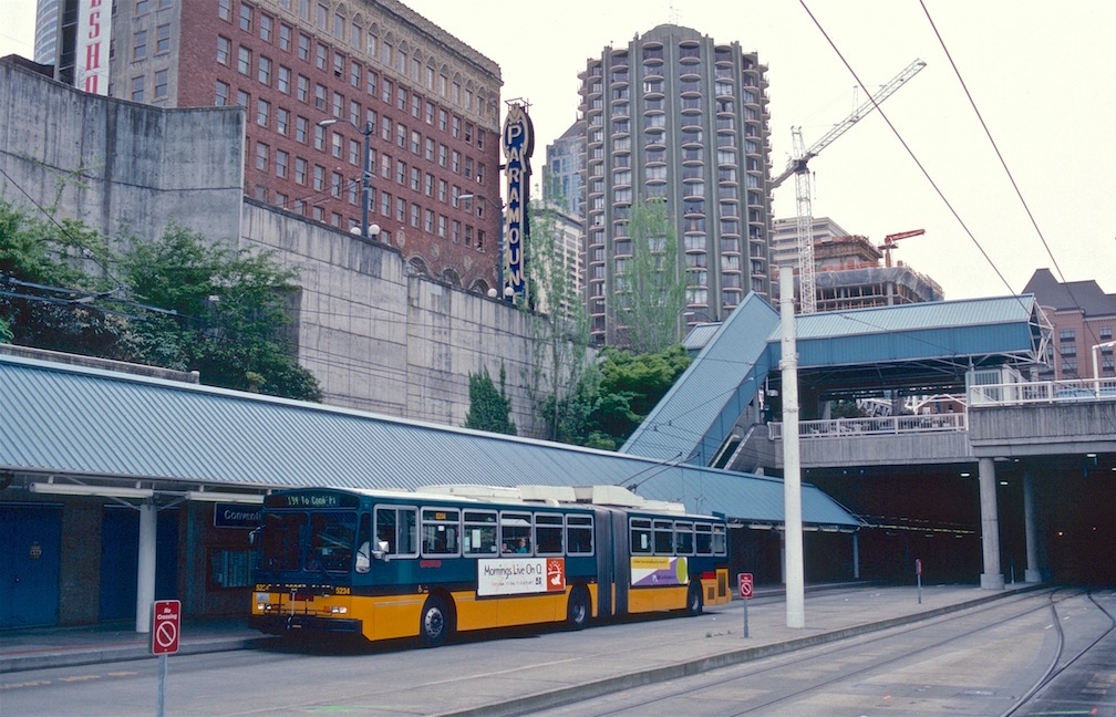 Seattle Metro Transit 5234, the second-to-last of 236 Breda-built dual-mode buses built for Metro in 1988–1991, at the southernmost platform of Convention Place station of the Downtown Seattle Transit Tunnel, in 2000. It was at the end of an inbound trip on route 194 (its destination sign reads "194 To Conv. Pl."). No. 5234 had been repainted, circa the late 1990s, into Metro's 1995-adopted paint scheme (the teal version). A few years after this photo, in 2006, it was converted from dual-mode configuration to trolleybus-only configuration and renumbered 4258.